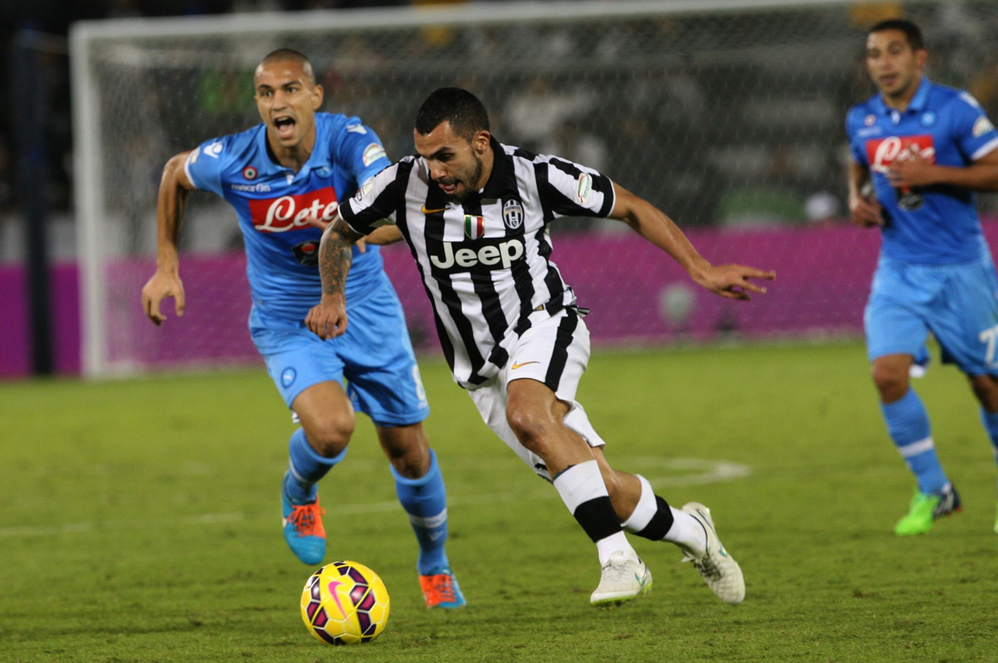 Napoli brought an end to Juventus's dominance in the 2014 Italian Super Cup with a dramatic sudden-death penalty shootout win in Doha.